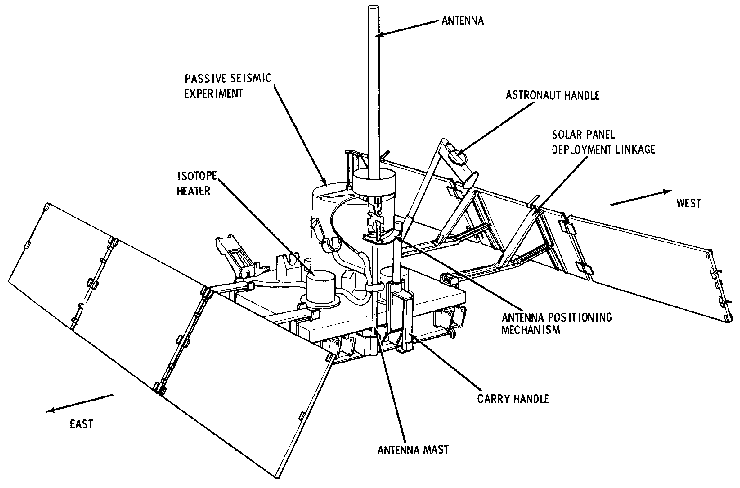 Diagram of the Passive Seismic Experiment Package. Part of the EASEP.